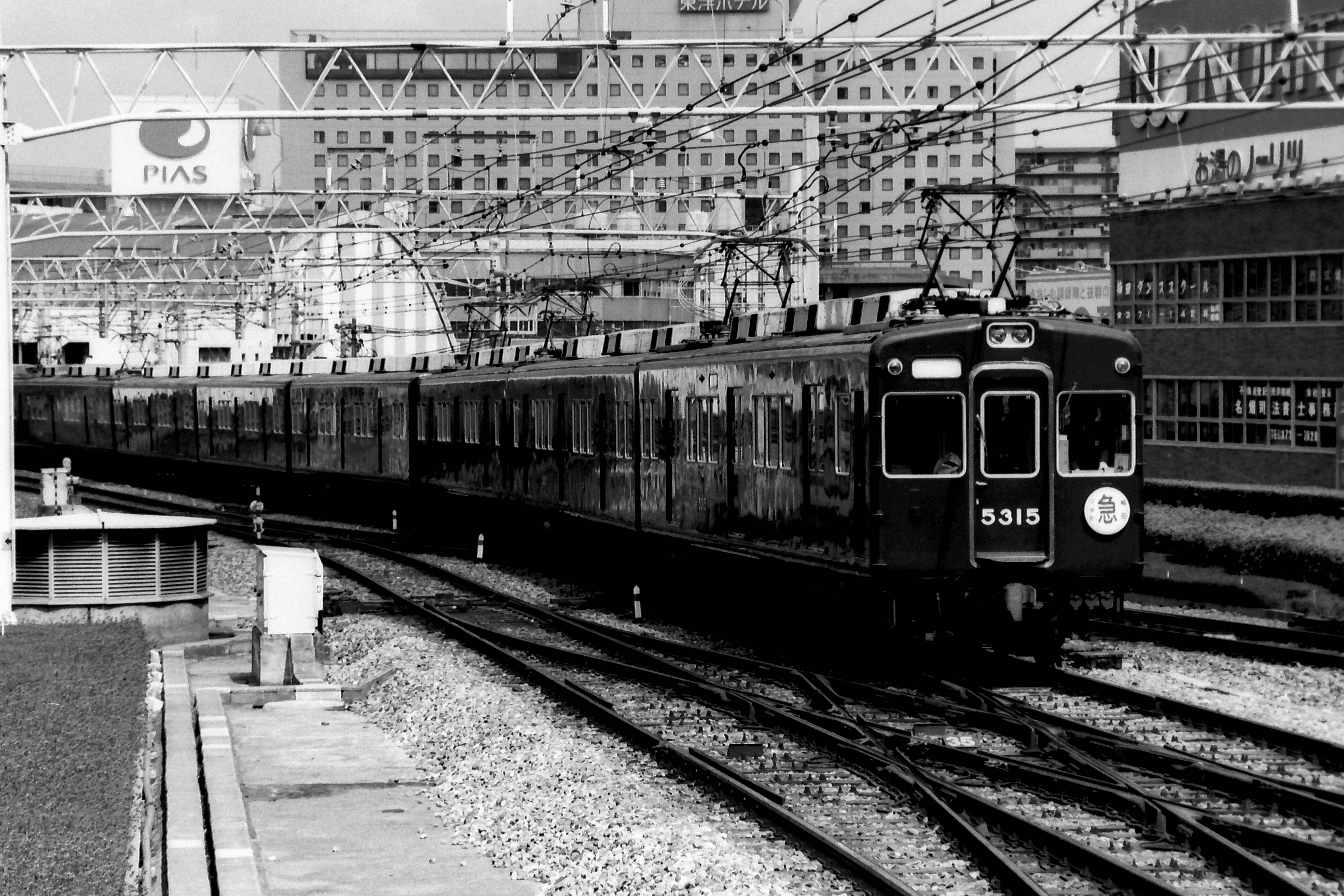 Hankyu 5300 series EMU set 5315 arriving at Umeda Station on a Kyoto Line service